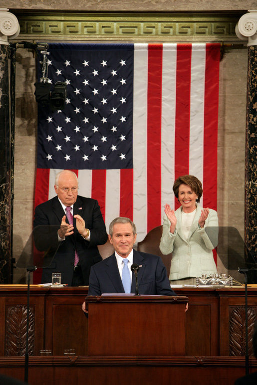 President George W. Bush receives applause while delivering the State of the Union address at the U.S. Capitol, Tuesday, Jan. 23, 2007. Also pictured are Vice President Dick Cheney and Speaker of the House Nancy Pelosi.